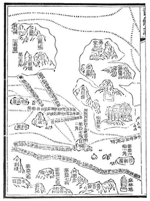 Mao Kun map showing Ceylon and east coast of Africa The main island to the right is Ceylon (錫蘭山), India to the left, Africa is shown at the bottom, Malindi (麻林地) indicated at the far right corner